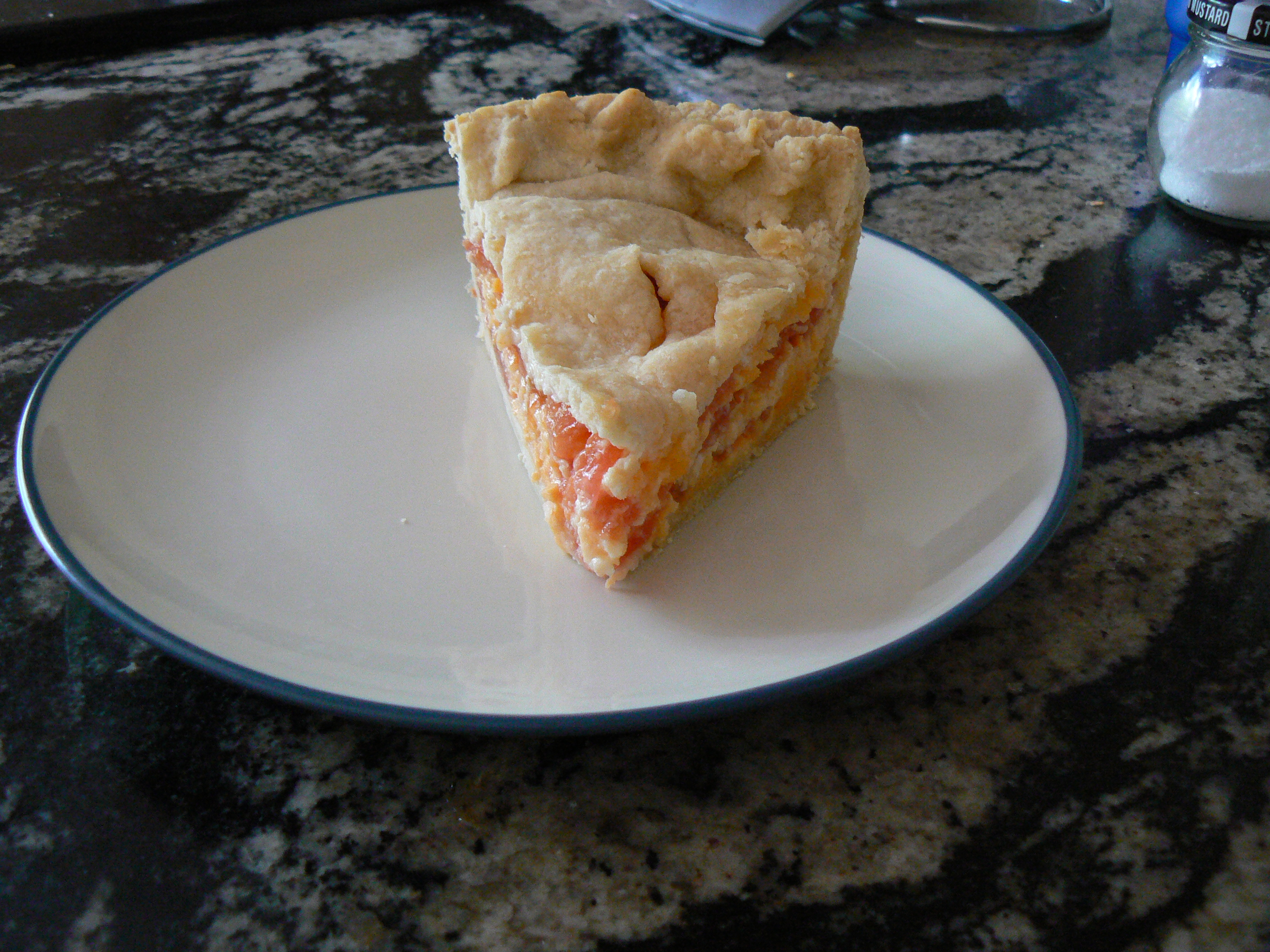 Tomato pie is a tomato dish common in the Southern United States, consisting of a pie shell with a filling of tomatoes (sometimes with basil or other herbs), covered with a topping of grated cheese mixed with either mayonnaise or a white sauce.